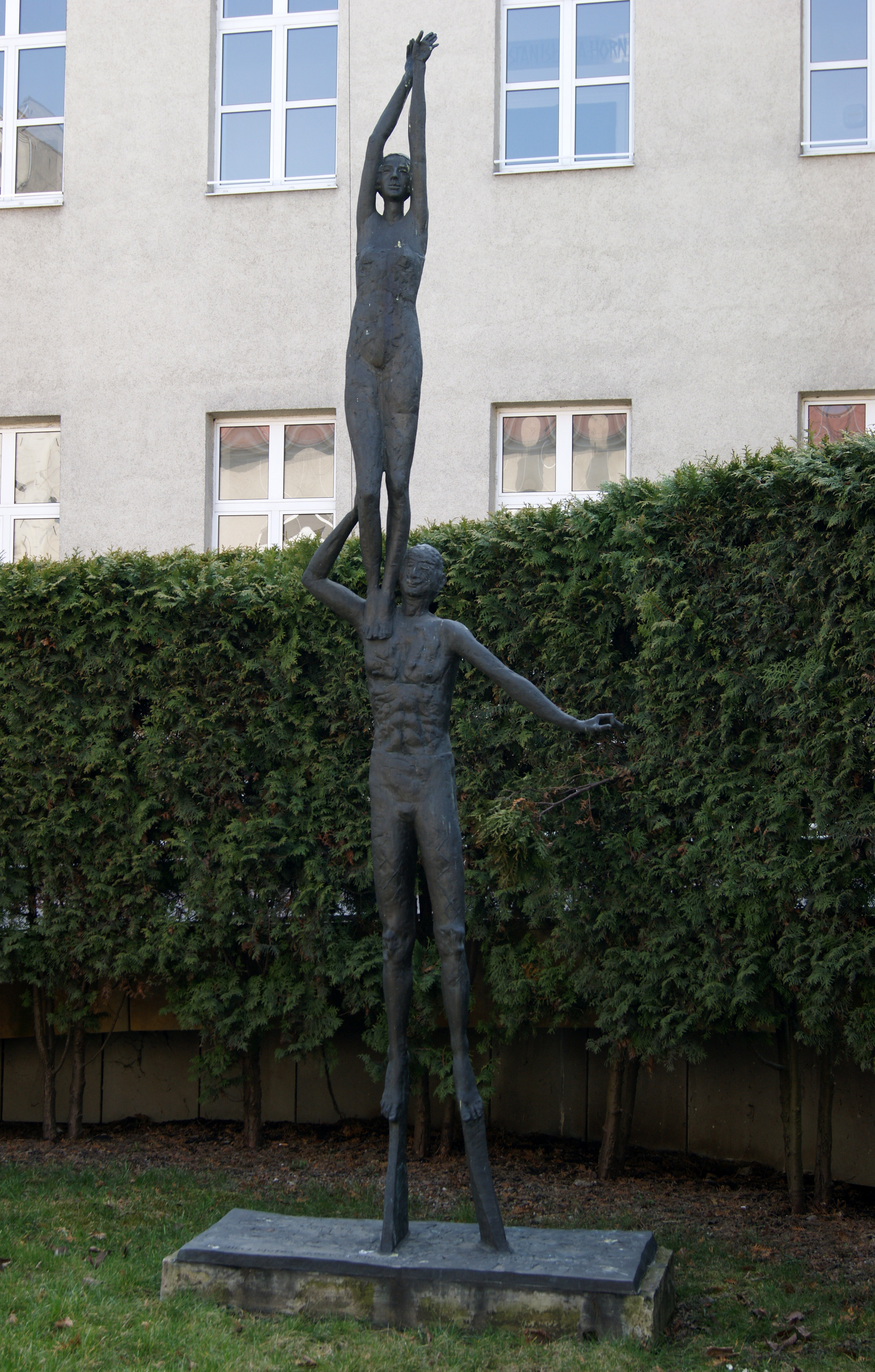 Piotr Skrzynecki memorial, 8 Skawinska street, Kazimierz,Krakow,Poland